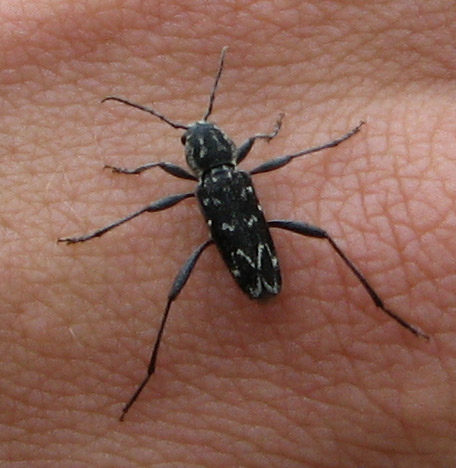 Xylotrechus rusticus